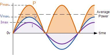 Vala e tensionit,rrymes dhe fuqise